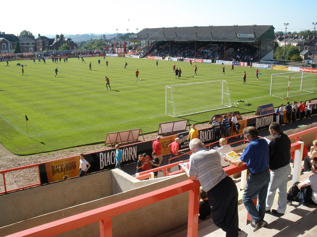 Exeter City football ground The teams warm up at St James's Park, before a Saturday afternoon kick-off.